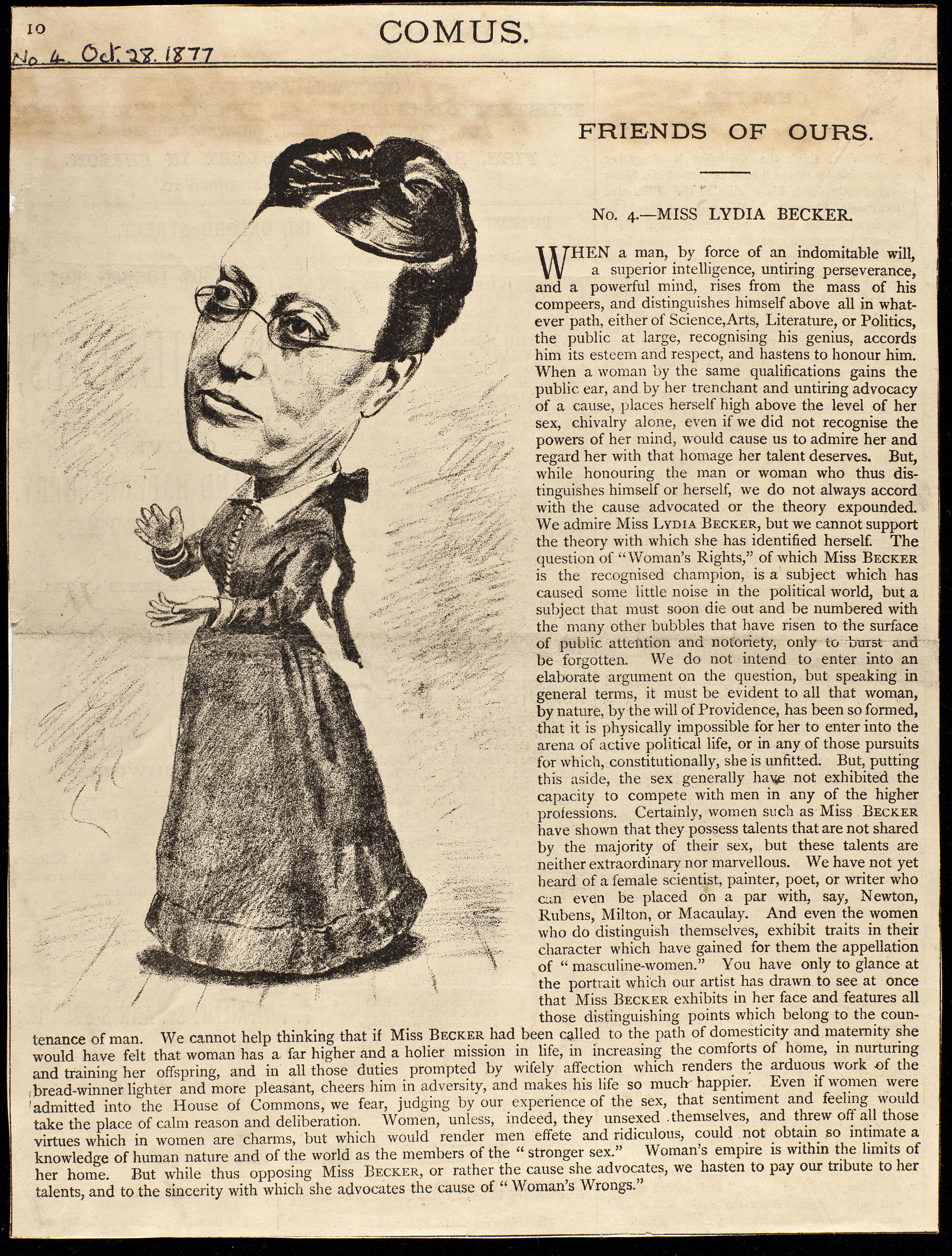 7LEB/1/08